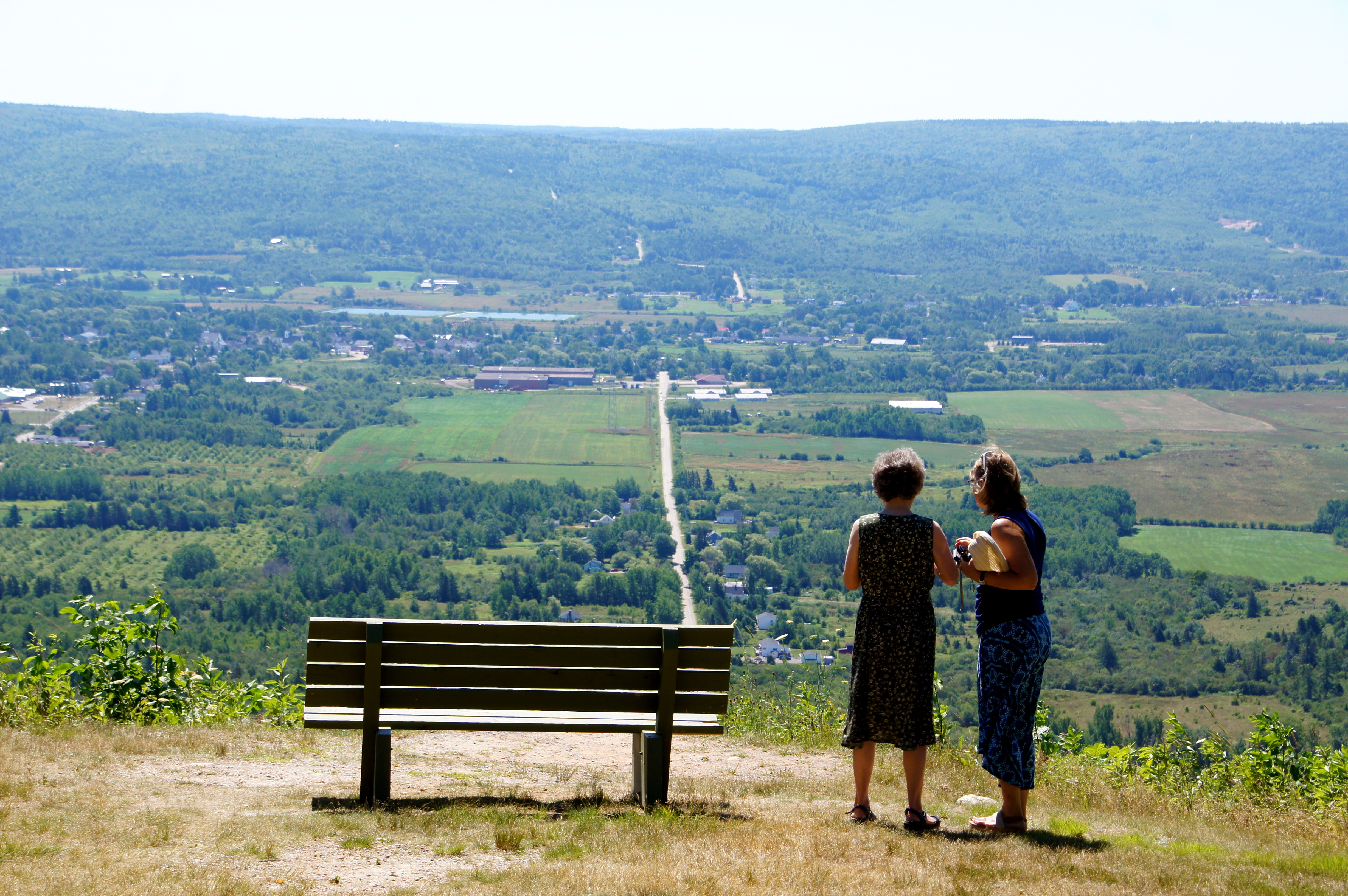 Looking over the narrowest part of the Annapolis Valley towards Bridgetown from Valleyview Provincial Park